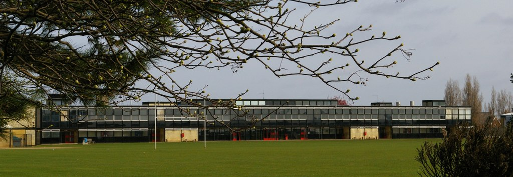 Smithdon High School, Hunstanton, Norfolk. Designed by the architects Peter and Alison Smithson and completed in 1954, it is a grade II listed building.